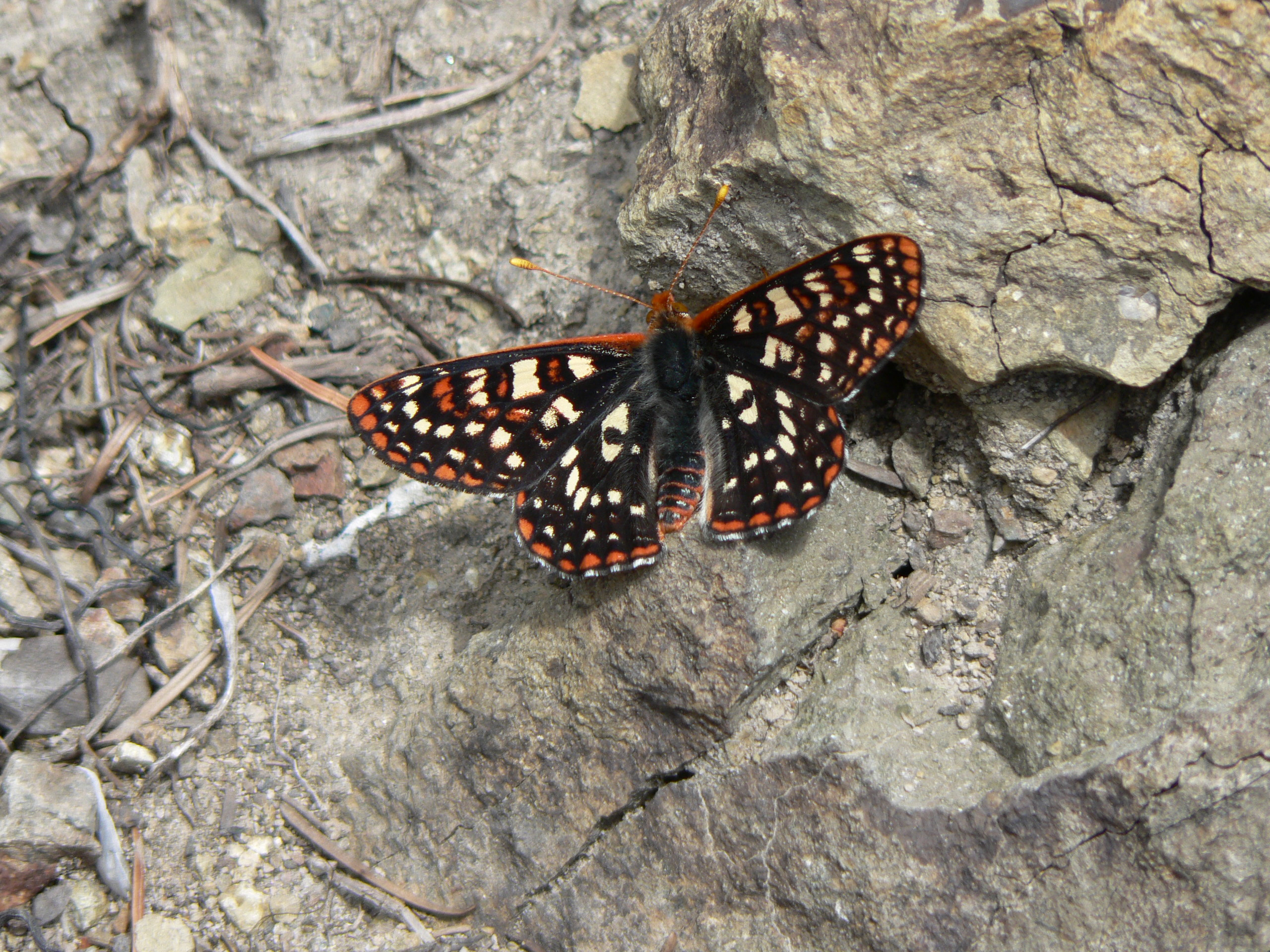 Variable Checkerspot; off-center abdominal white spots (visible) distinguish this species from E. editha